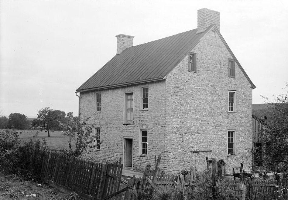 Fort Stover, Page County, Virgina, USA